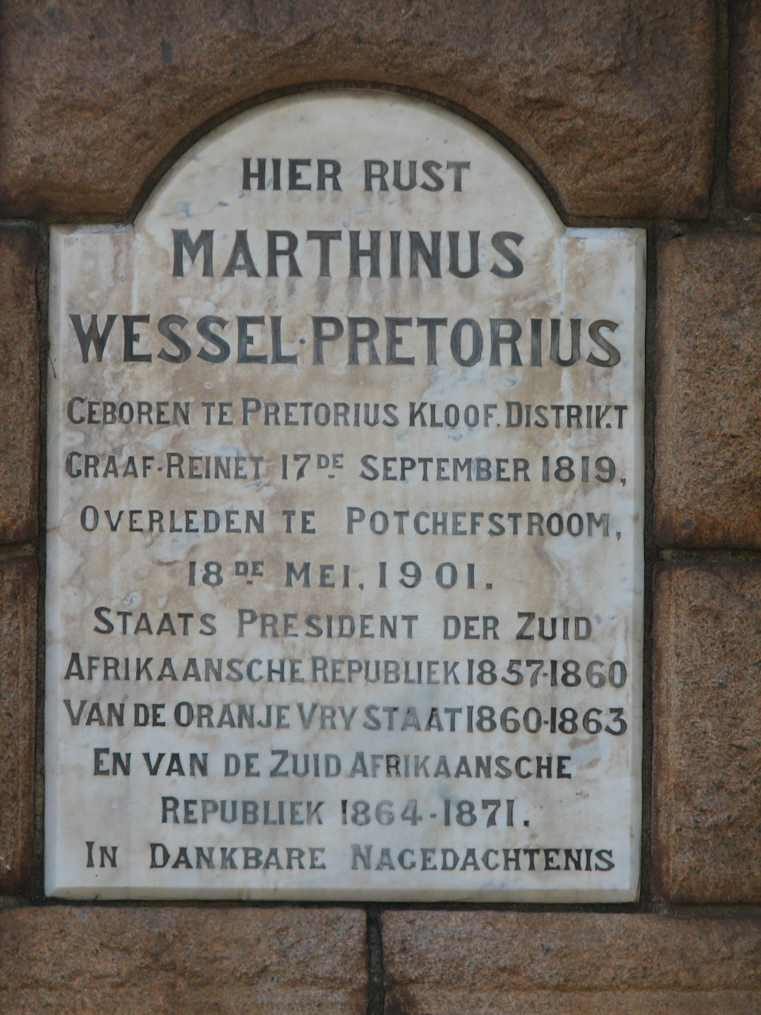 Grave marker of Marthinus Wessel Pretorius, former President of both the South African Republic and Orange Free State, in Potchefstroom.